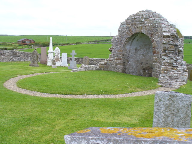 The Round Kirk, Orphir Slight remains around the apse and the outline marking the circumference remain from the early 12th Century Norse church. It is unique in Scotland and its design was inspired by a Viking's visit to Jerusalem.